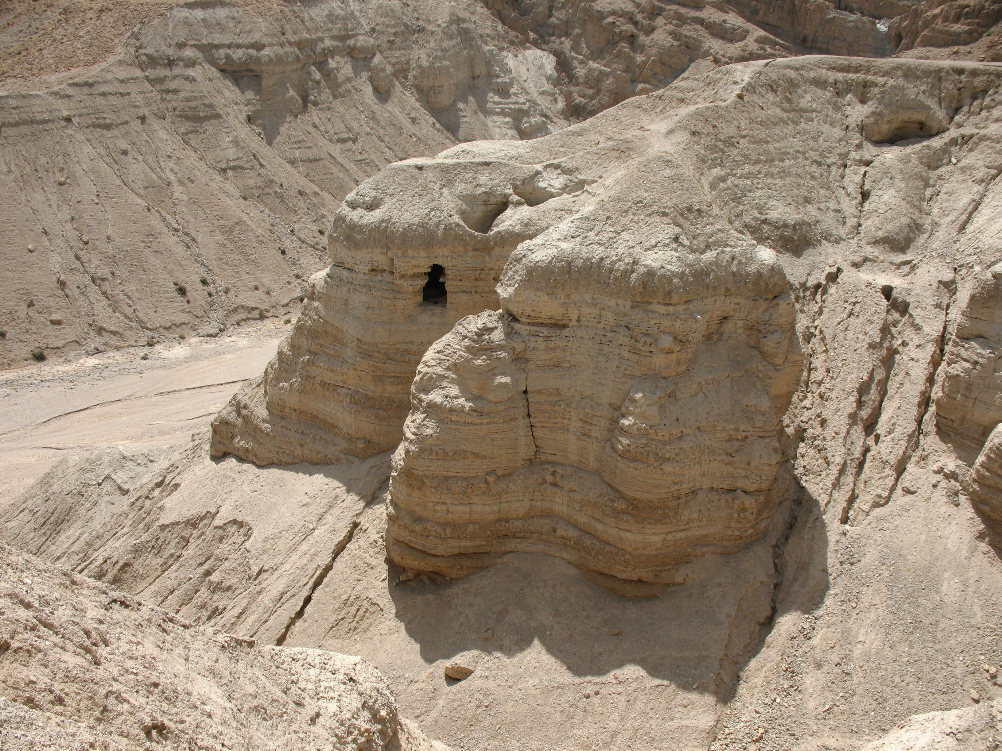 The Scrolls Cave "Bedouins discovered this cave in August 1952. Fourteen thousand fragments of scrolls were unearthed as they sifted through the dust within. Archaeologists, who reached the cave later, uncovered an additional 1,000 fragments. Scholars believe that a Roman soldier who entered the cave in 68 CE tore the scrolls intentionally, and that later, ravages by animals and climate inflicted further damage. As research proceeded, the fragments of these scrolls were pieced together to produce 530 different scrolls. Publication of these scrolls was completed in 2001." from marker Dead Sea